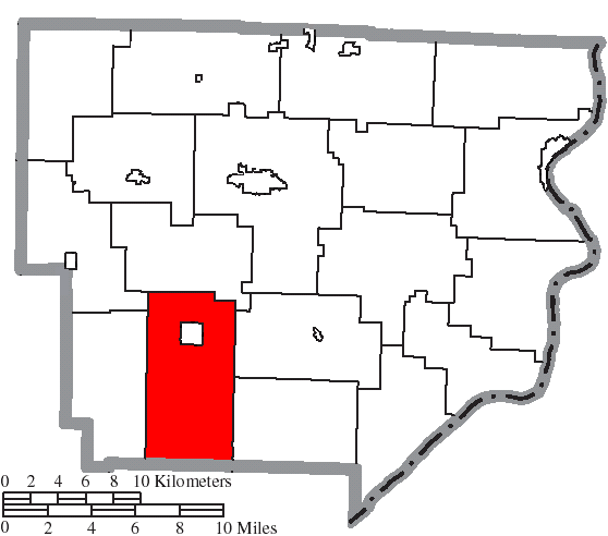 Map of the municipal and township boundaries of Monroe County, Ohio, United States, as of the 2000 census, with the location of Washington Township highlighted. Township borders are shown only in unincorporated areas in order to differentiate incorporated and unincorporated areas more clearly.